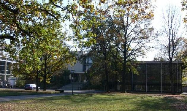 View of the Max-Planck-Institute for Physics, Munich. See also: File:Max-Planck-Institute-for-Physics.jpg